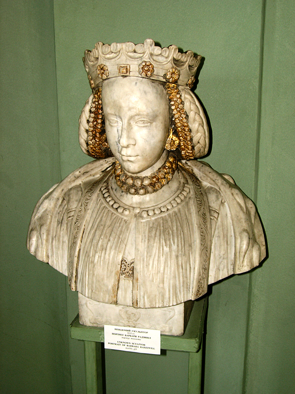 Portrait of Barbara Zapolya in Olesko Castle (Ukraine)[1]